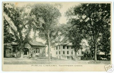 Postcard: "Public Library, Thompson, Conn." Postmarked 1908 "Card is used postally with corner wear at lower right; see scan for condition. Includes .01 Benjamin Franklin Stamp. Per postmark, mailed 1908 from Thompson. Published by Albertype." Location: Thompson, Connecticut